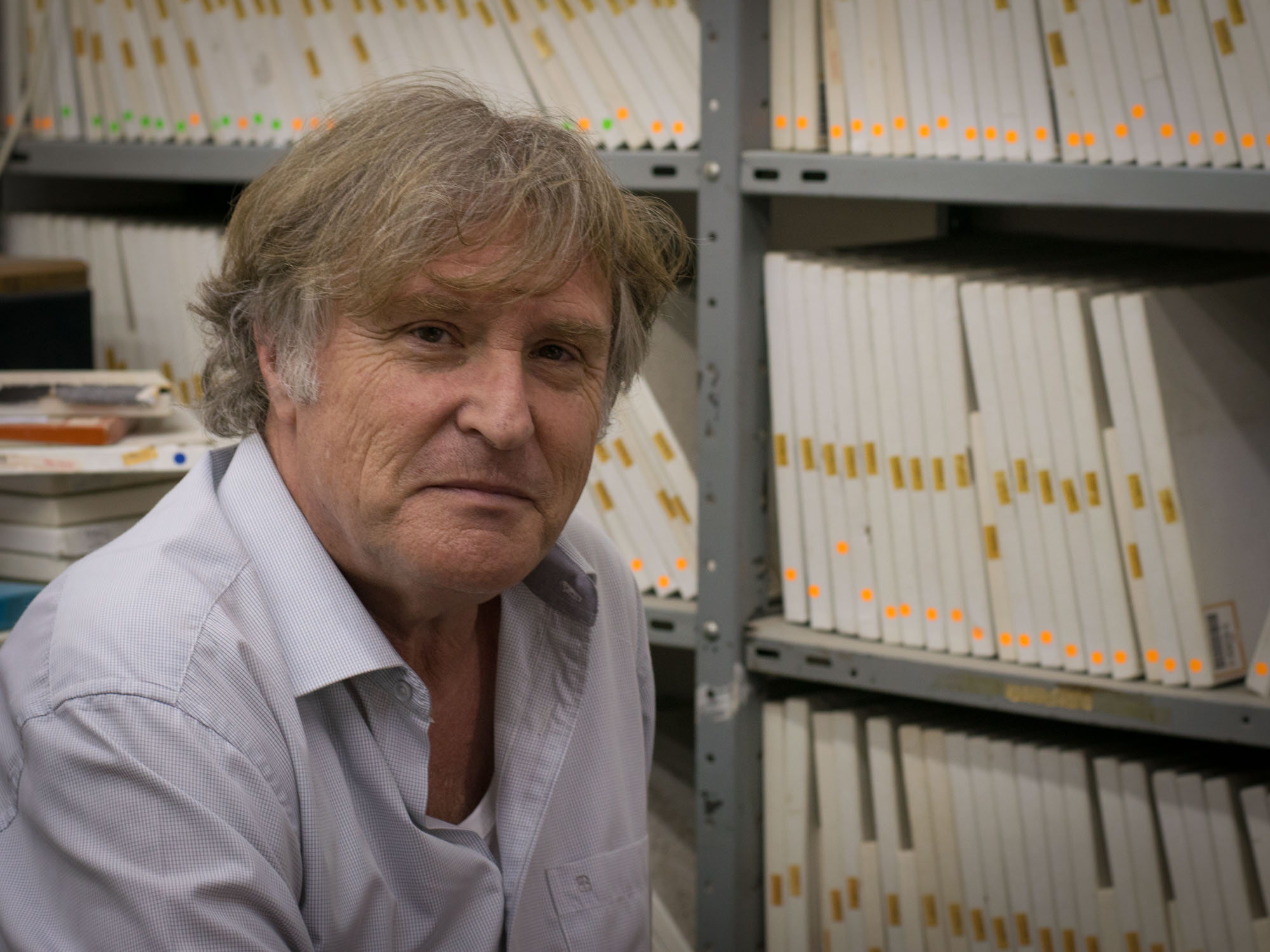 Menahem Granit - Kol Israel